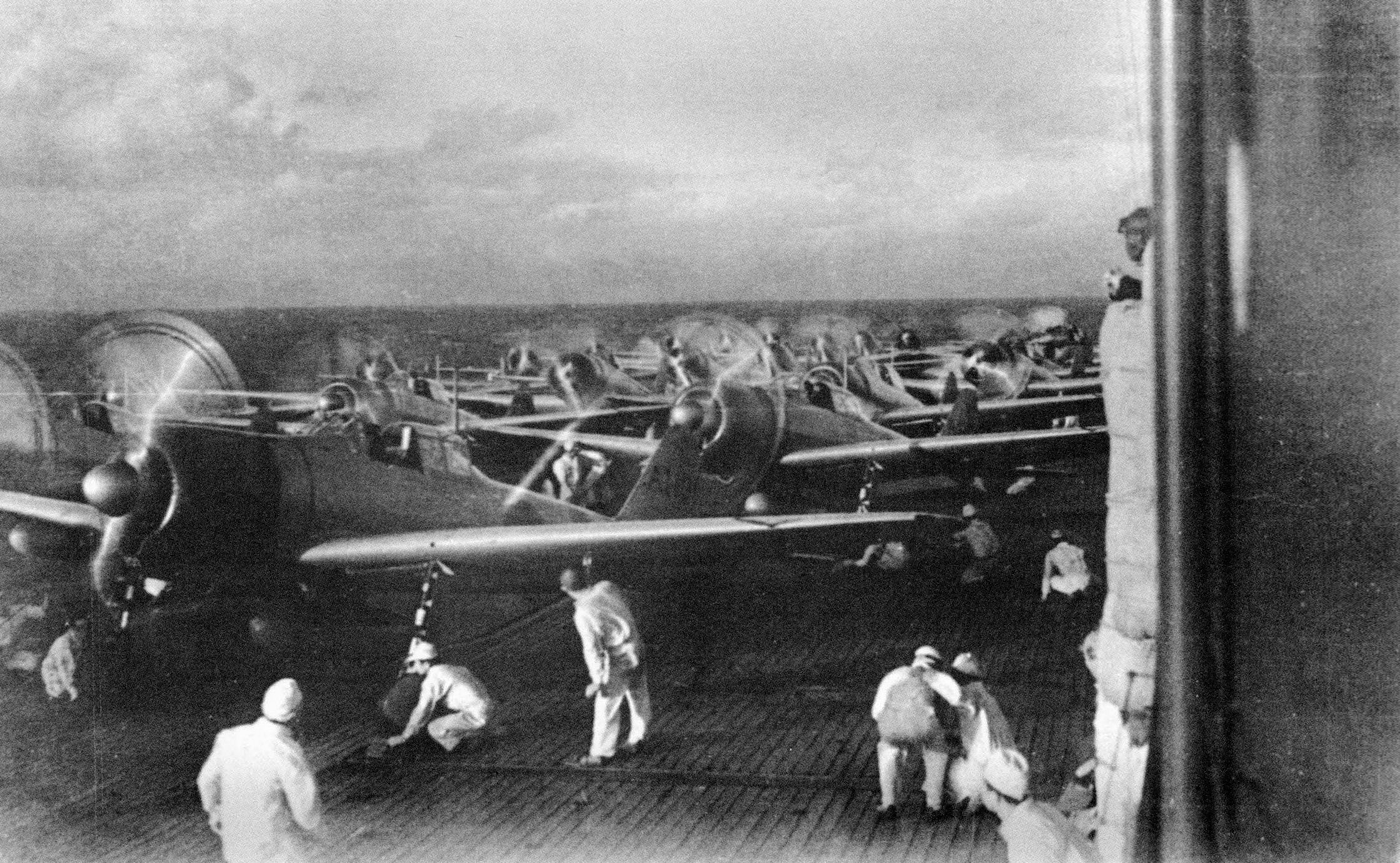 Aircraft prepare to launch from the Imperial Japanese Navy aircraft carrier Akagi for the second wave of attacks on Pearl Harbor, Hawaii.